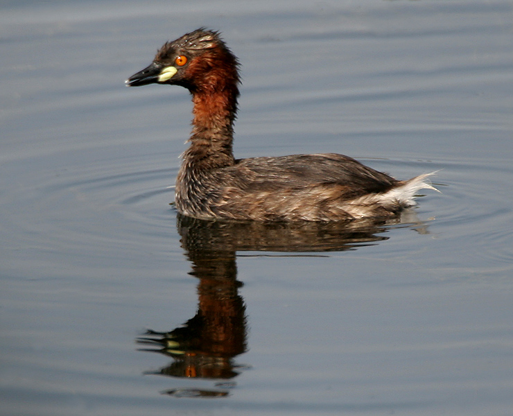 Little Grebe or Dabchick Tachybaptus ruficollis at Lotus Pond, Hyderabad, India.